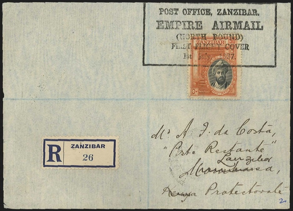 Registered cover from Imperial Airways First Flight Northbound from Zanzibar to Kenya on 1 July 1937